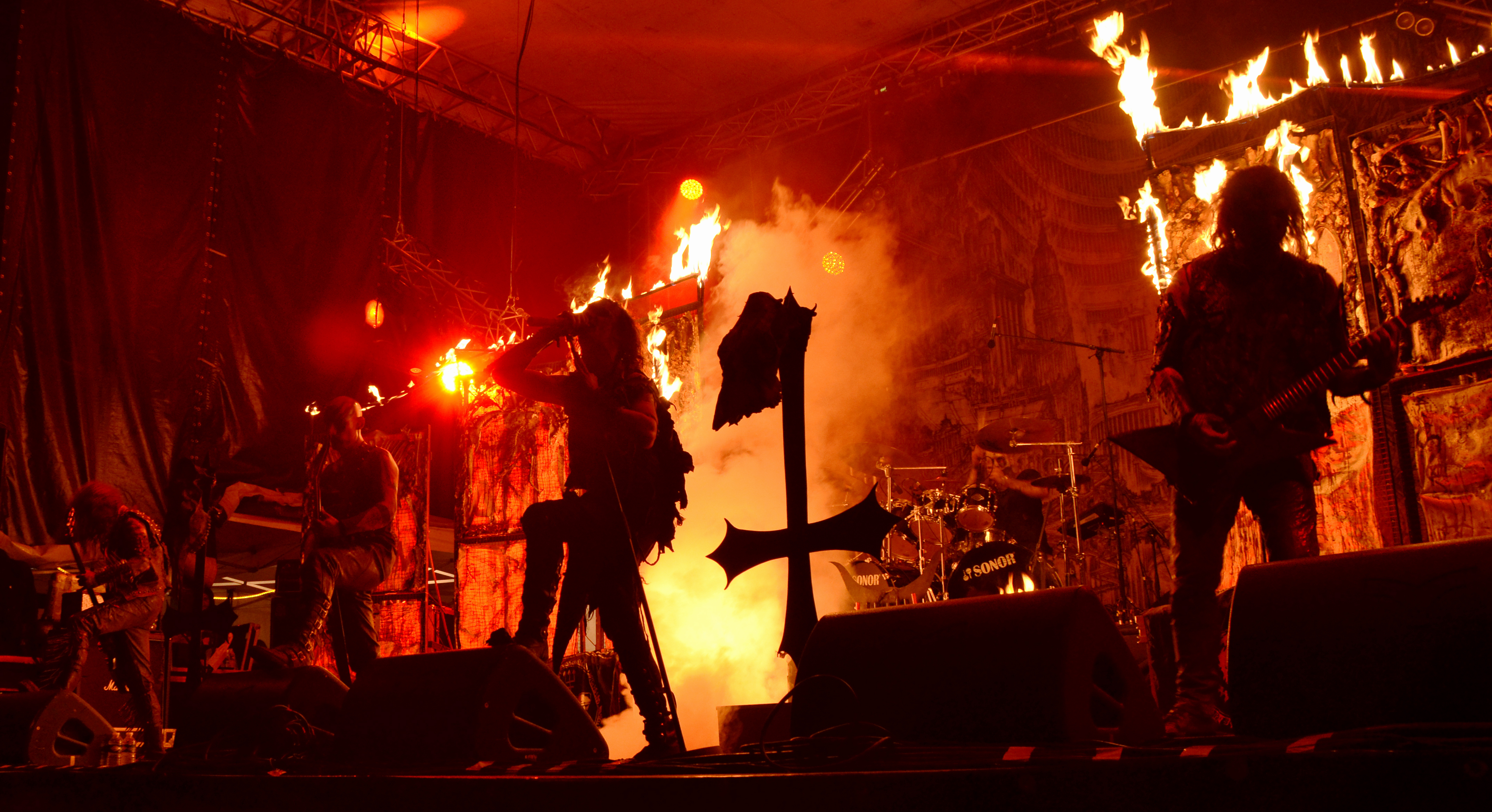 Watain at the Fall of Summer Festival, in Torcy, the 6th of September 2014.